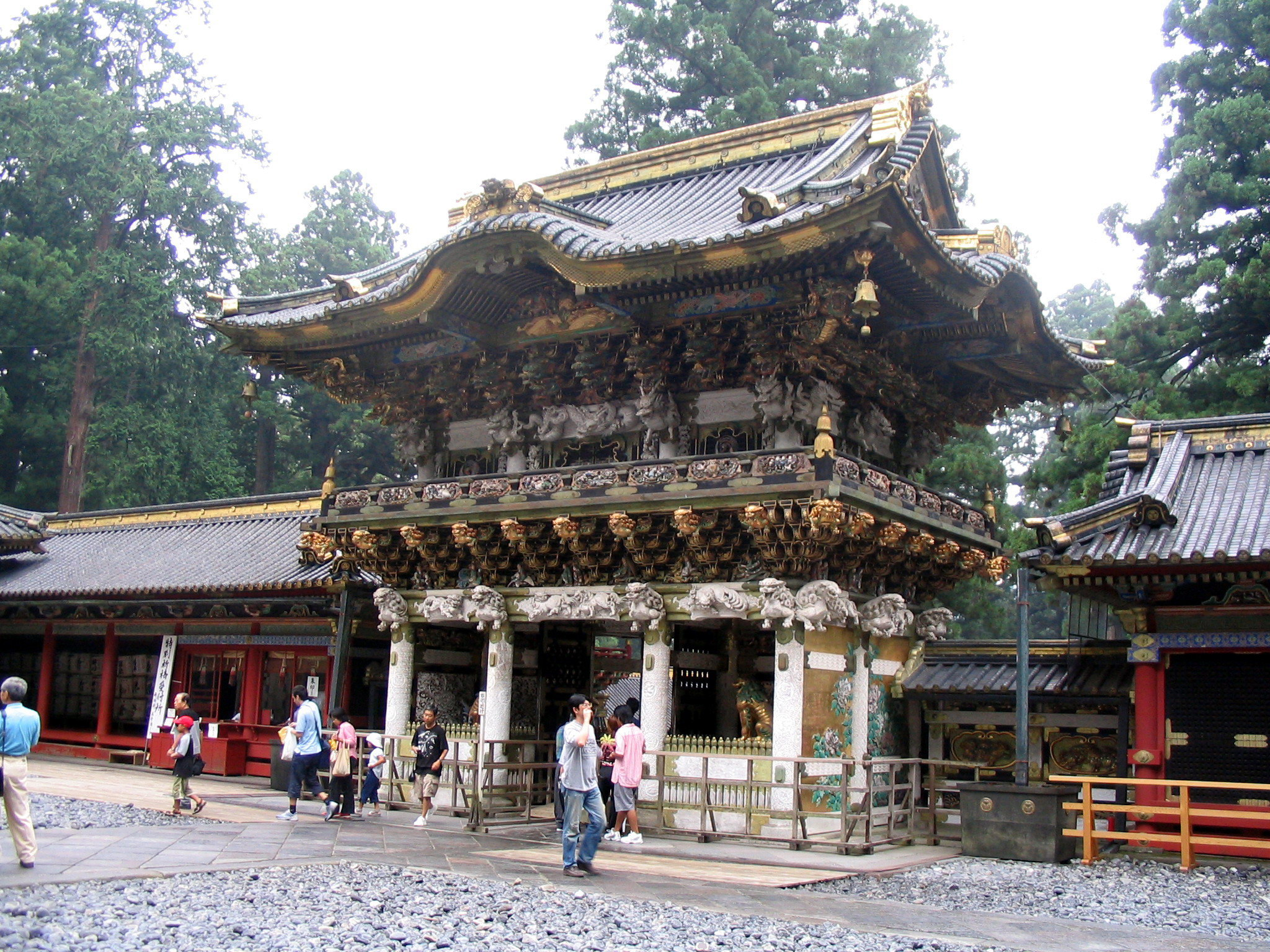 Yomeimon Gate in the Toshogu Shrine, Nikko, Japan.